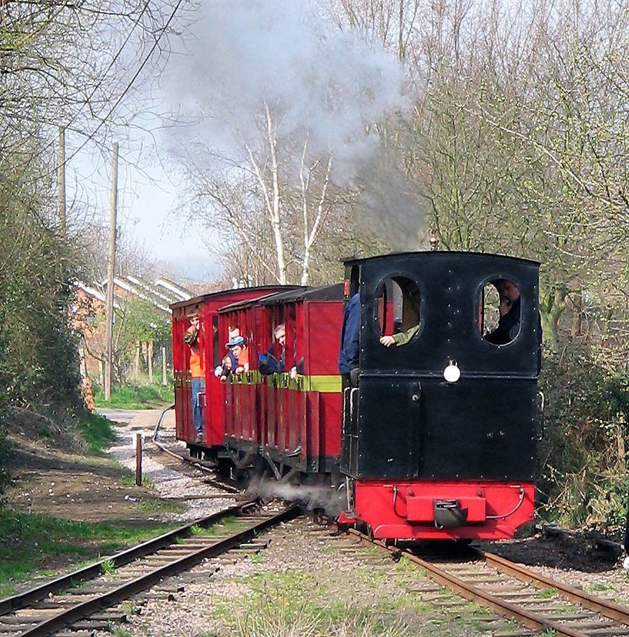 A train hauled by "PC Allen" runs into a passing loop after having just crossed a level crossing on the Leighton Buzzard Railway. Photo by G-Man March 2005